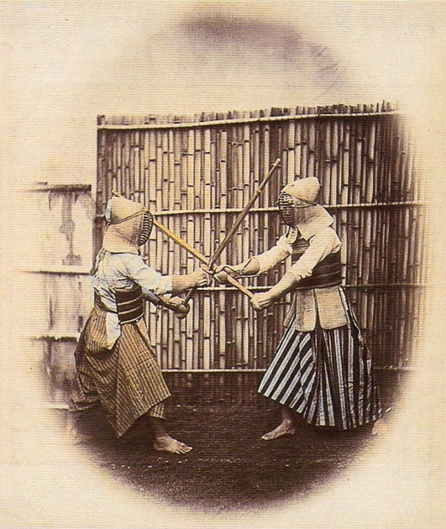 幕末 剣道 Tokugawa Kendo